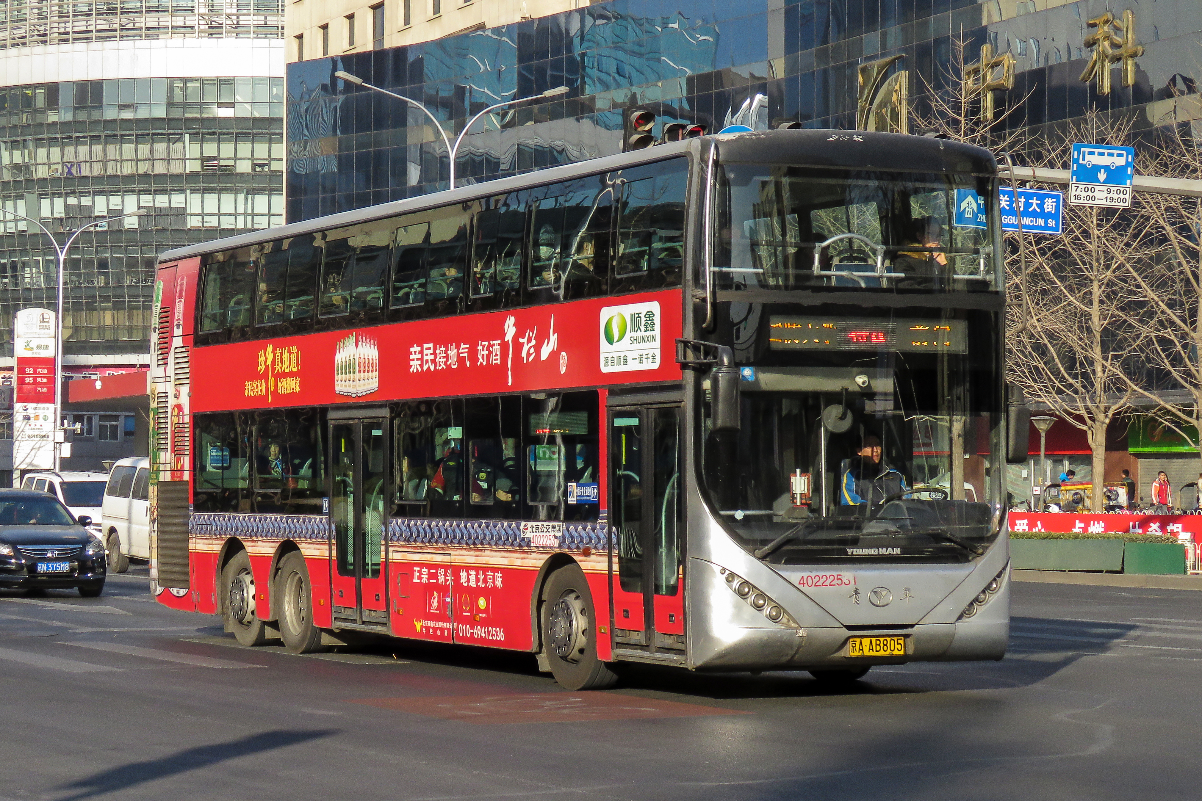 Maybe this fits KMB?